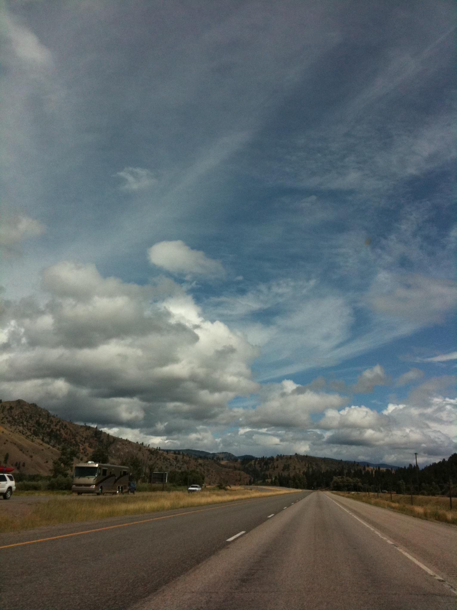 Interstate 90 in Granite County, Montana.